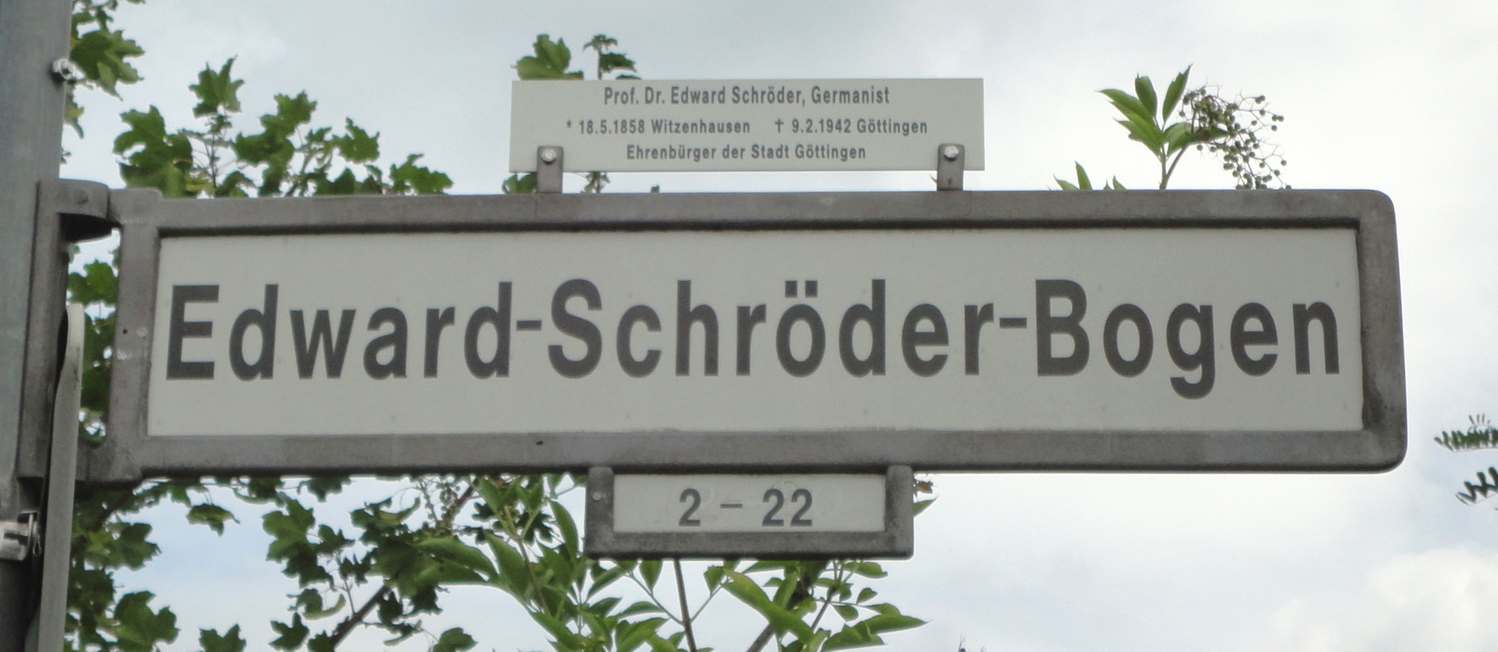 Göttingen-Weende, road sign Edward-Schröder-Bogen